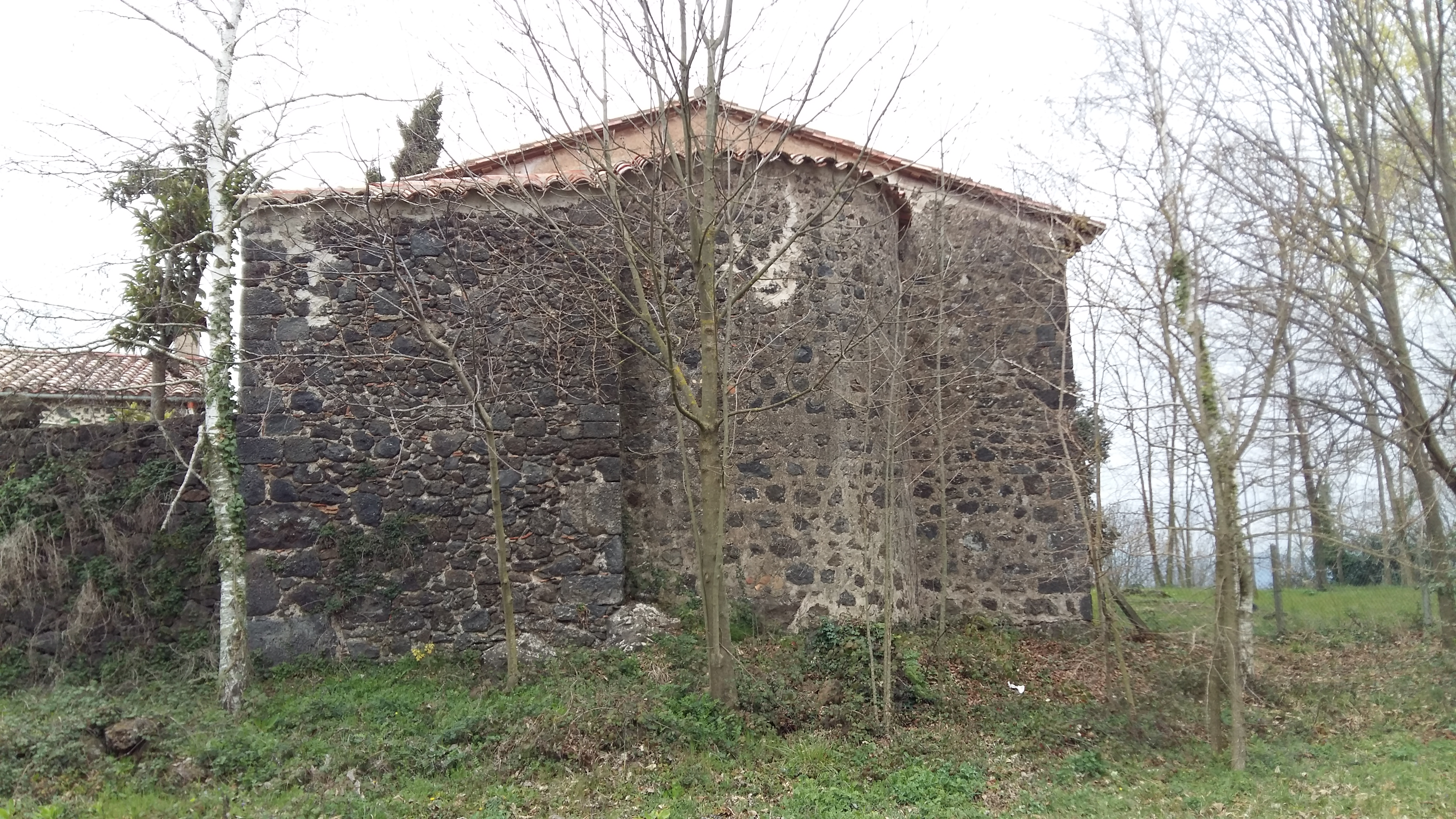 La Trinitat de Batet - Romanesque Chuch